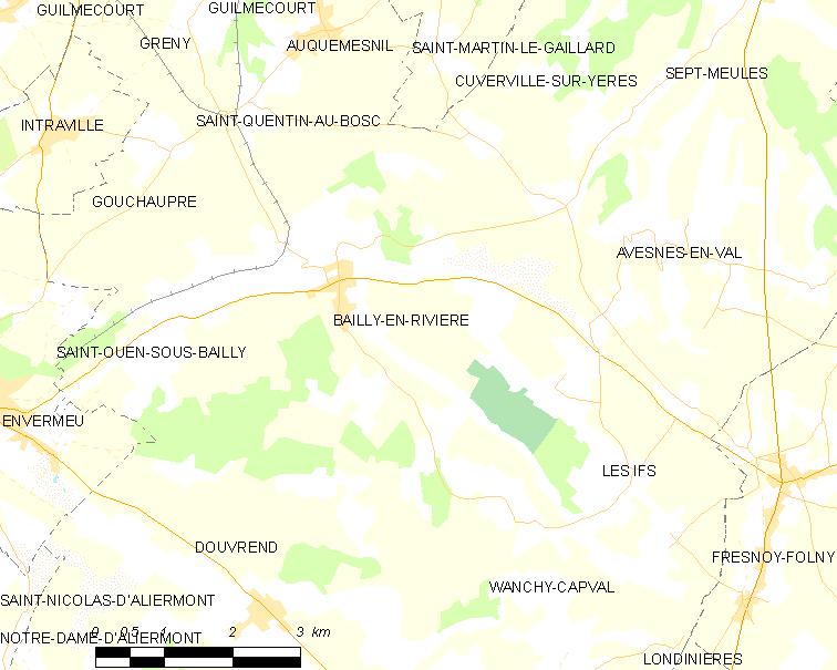 Map of French municipality Bailly-en-Rivière